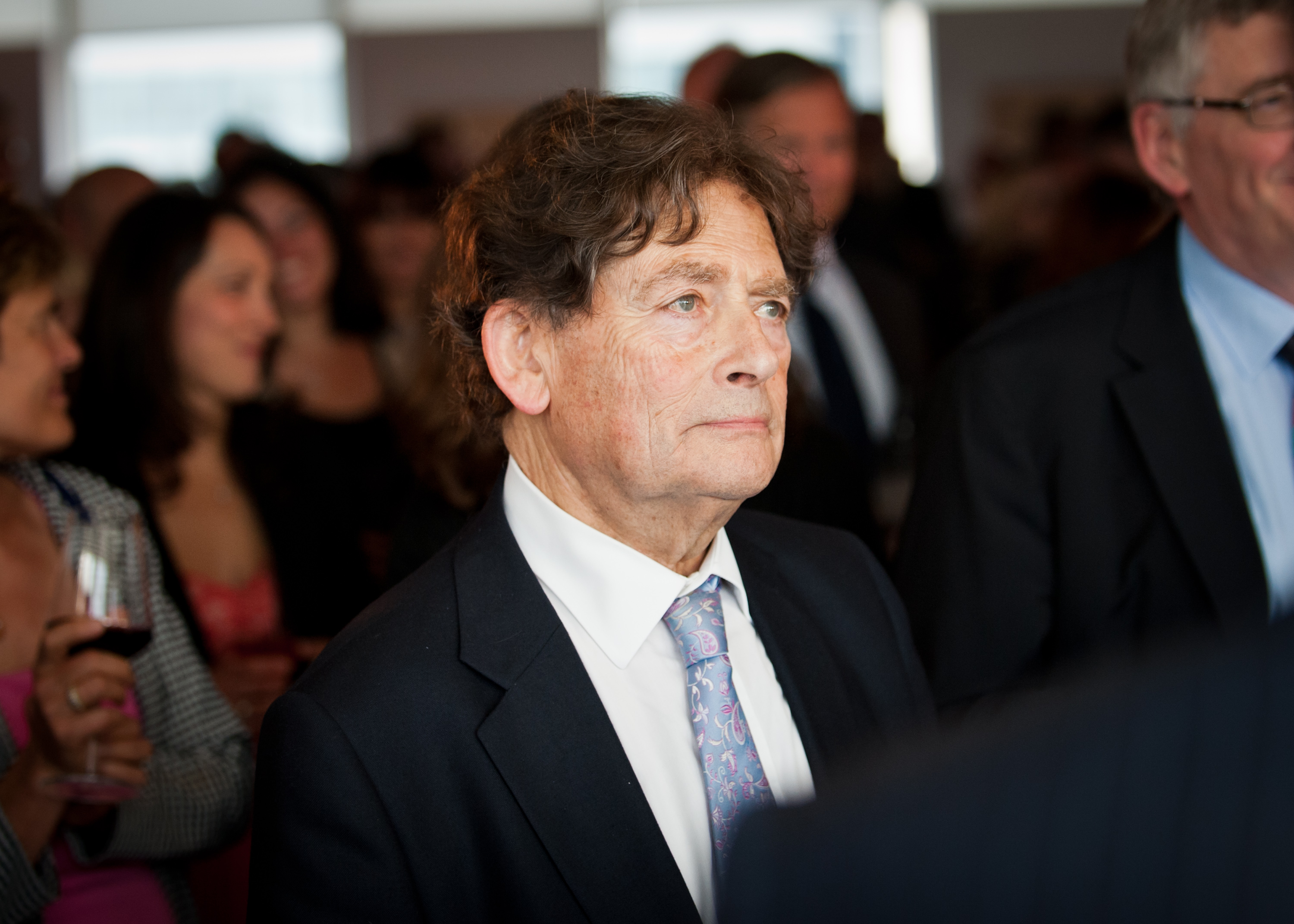 Lord Nigel Lawson at the Financial Times 125th Anniversary Party, London